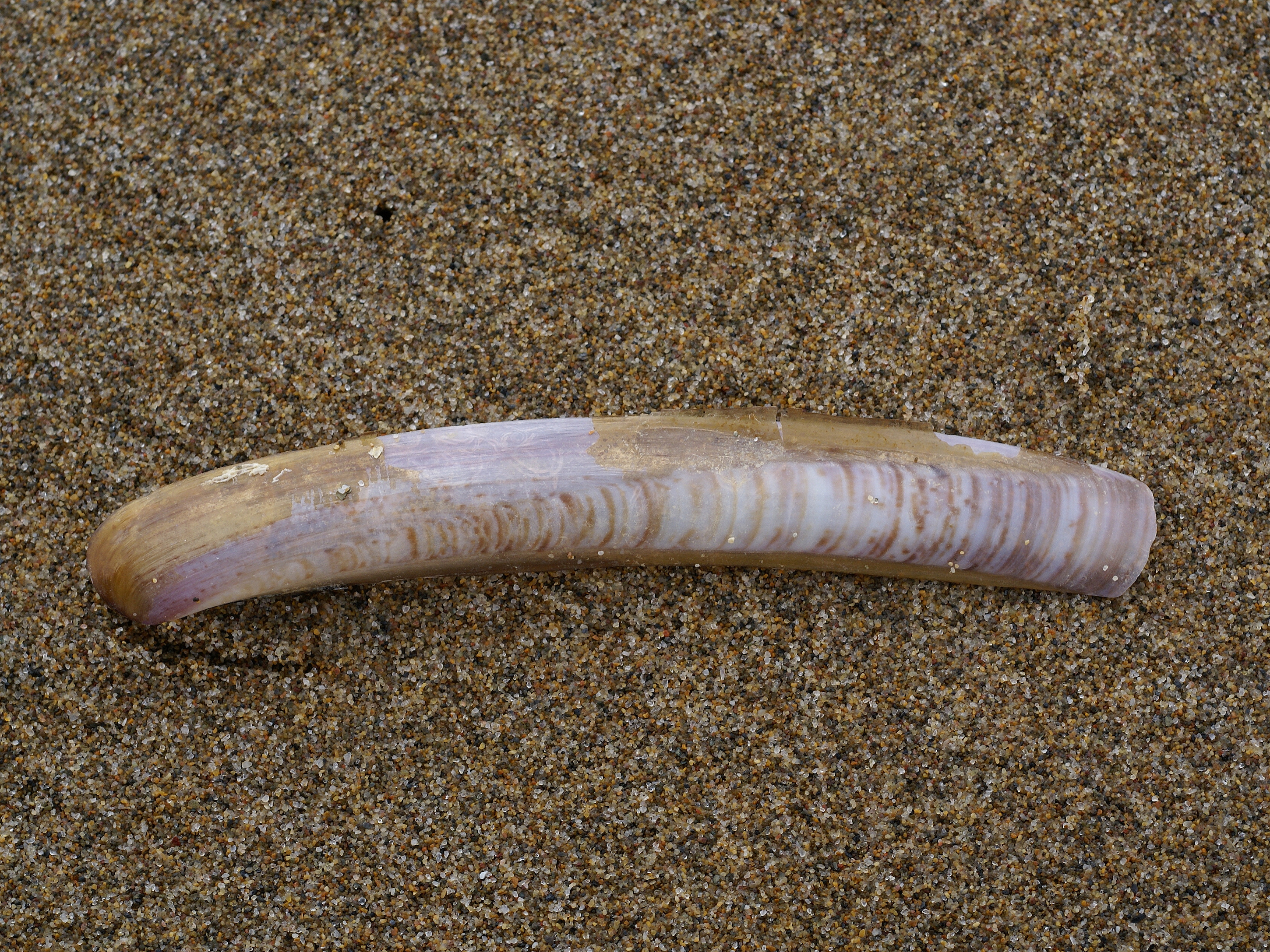 Near Riumar, Baix Ebre, Catalonia, Spain